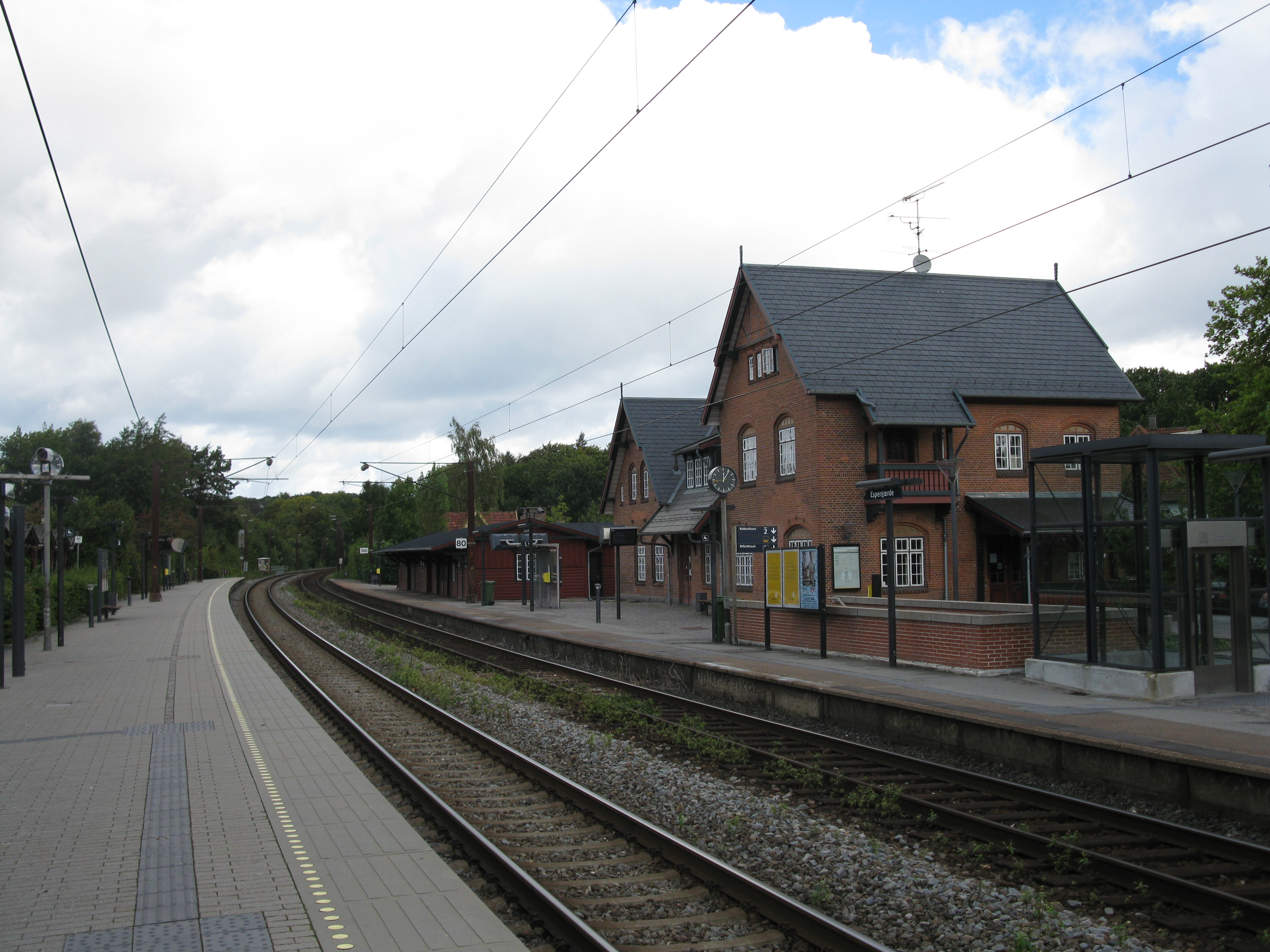 Railway station in Espergærde, Helsingør municipality, Denmark